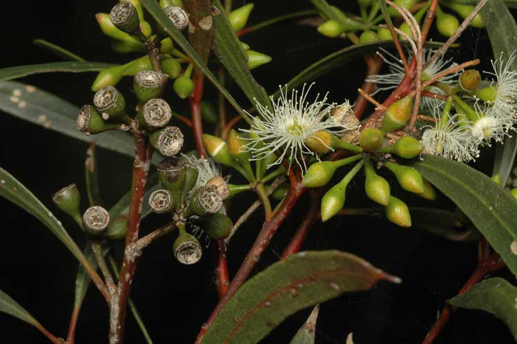 Flower buds, flowers and fruit of Eucalyptus viridis at the Tottenham State Forest, near Forbes, New South Wales